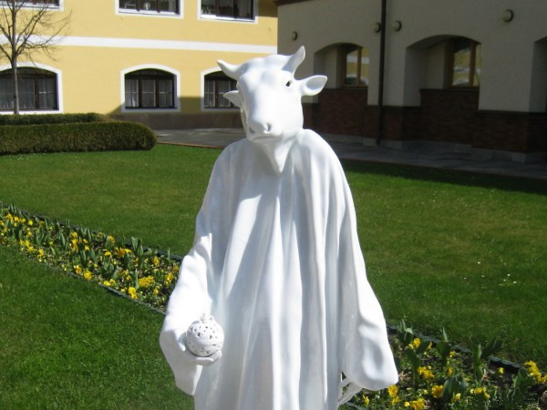 Carnival figure (Herend, Hungary)